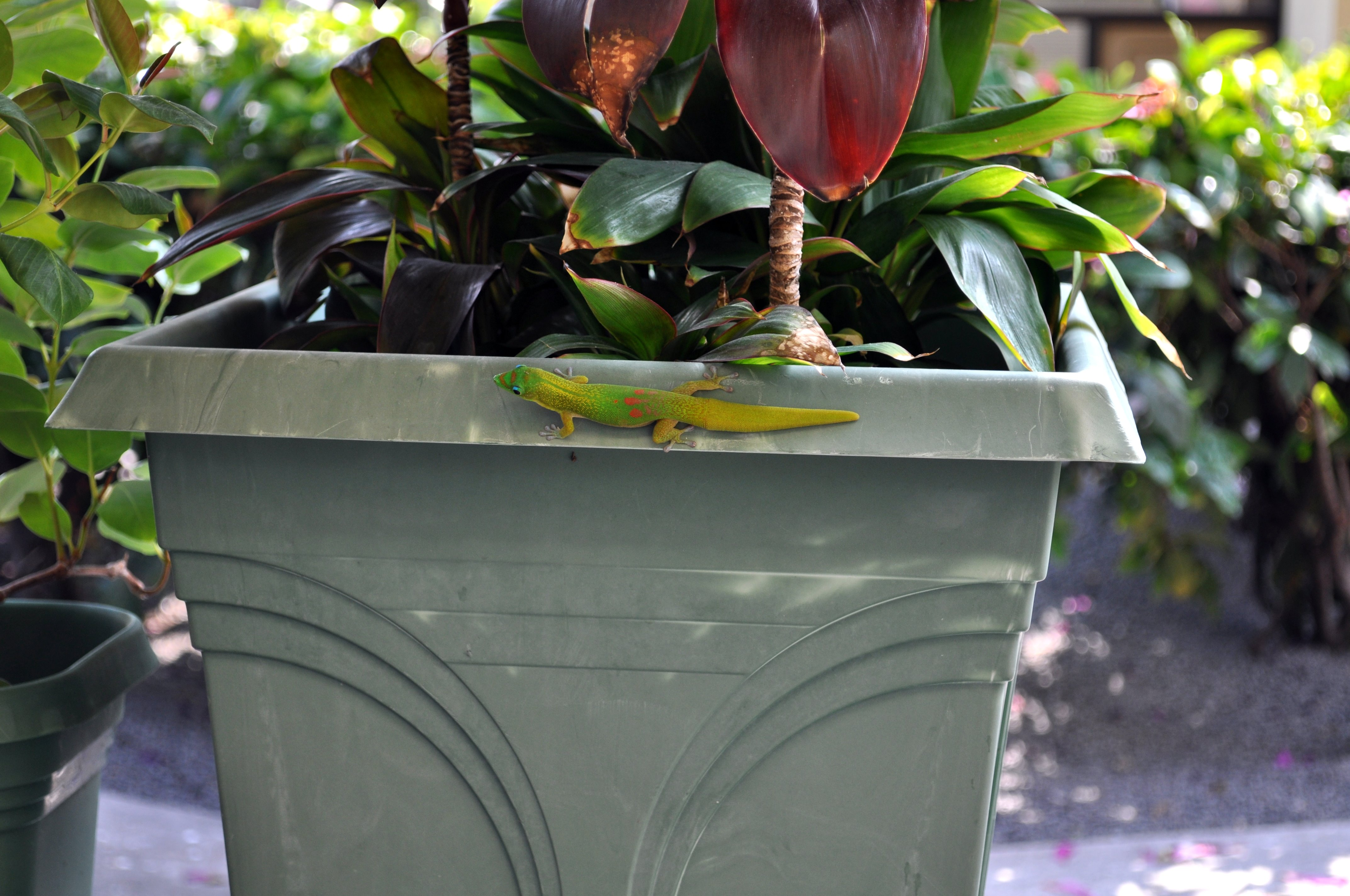 Gold dust day gecko (Phelsuma laticauda), on the island of Hawaii in the Hawaiian Archipelago.